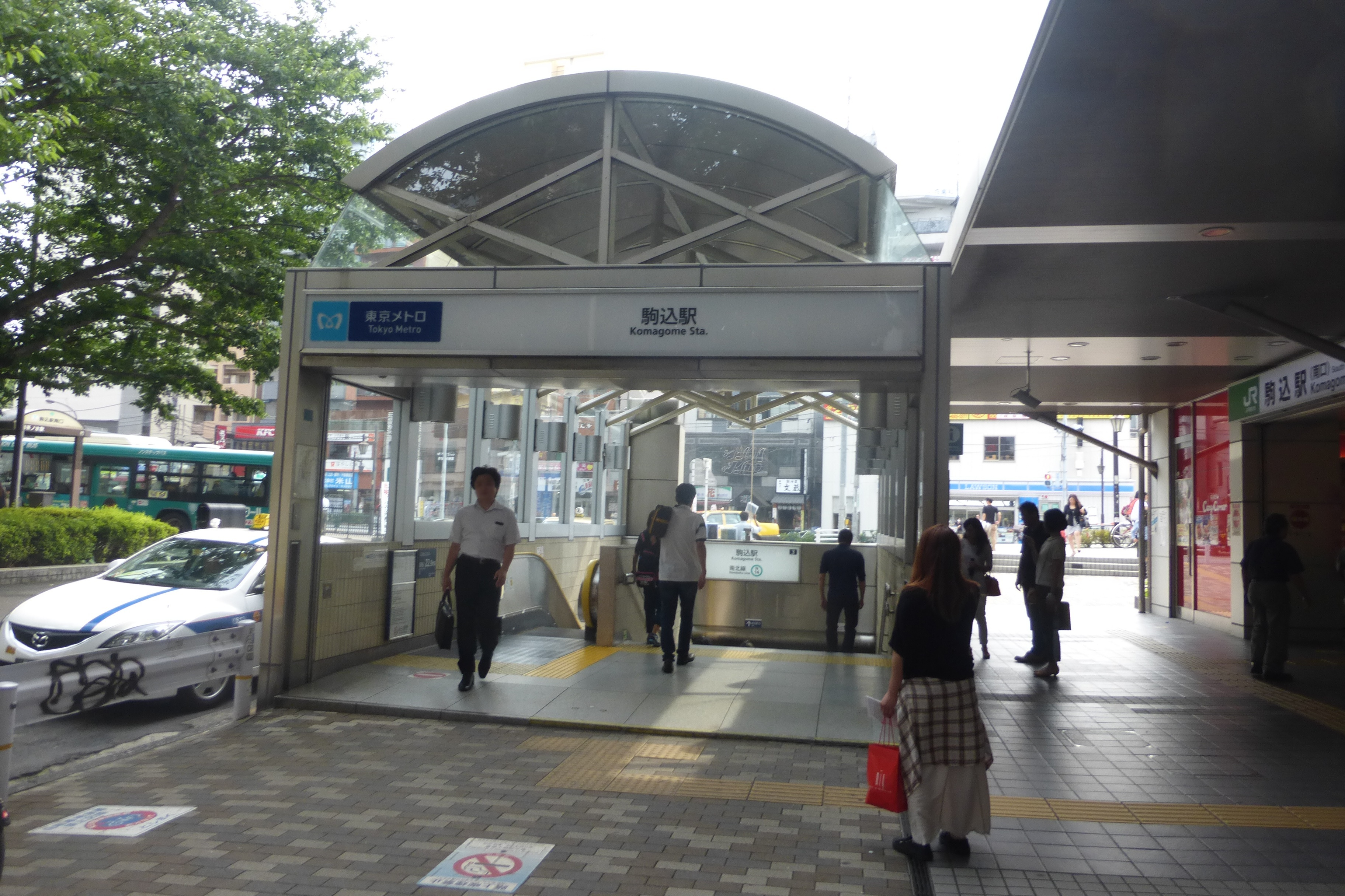 Subway Komagome Station entrance (地下鉄の駒込駅の入口)